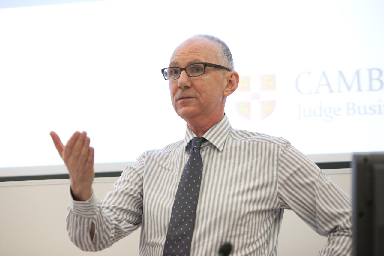 Anatole Kaletsky addresses the Cambridge Judge Business School